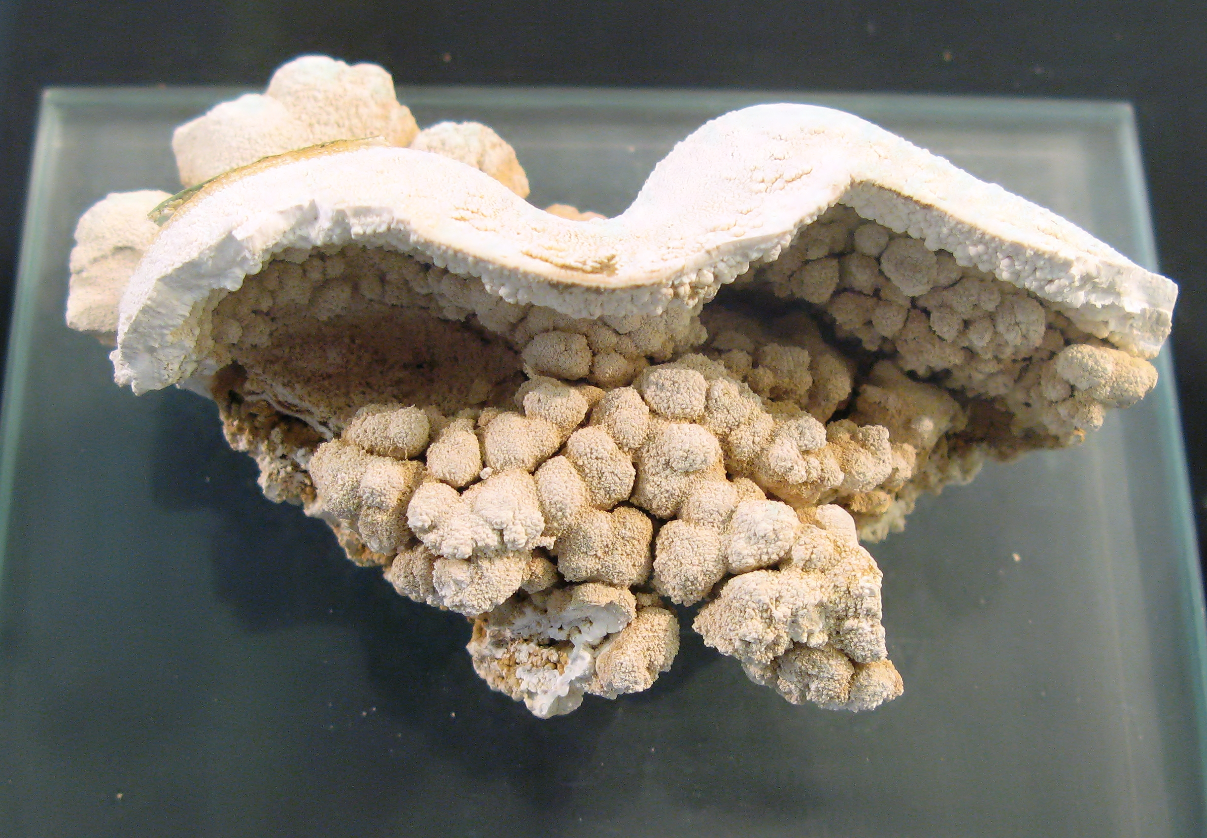 Hydrozincite out of the Oxidation zone - Raibl (Cavedel, Predil), Italia - Exposed in the Mineralogical Museum, Bonn, Germany